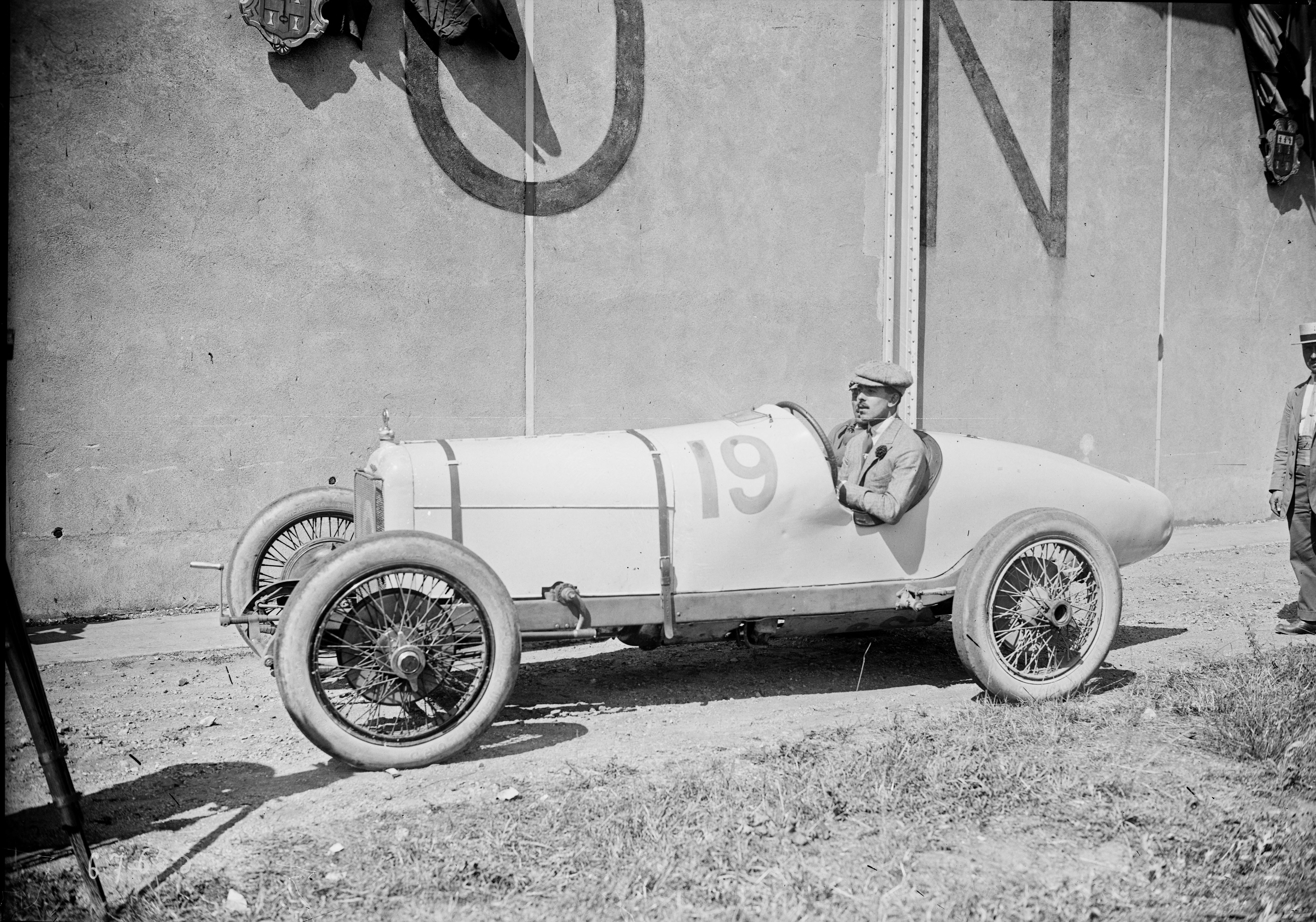 André Dubonnet at the 1921 French Grand Prix